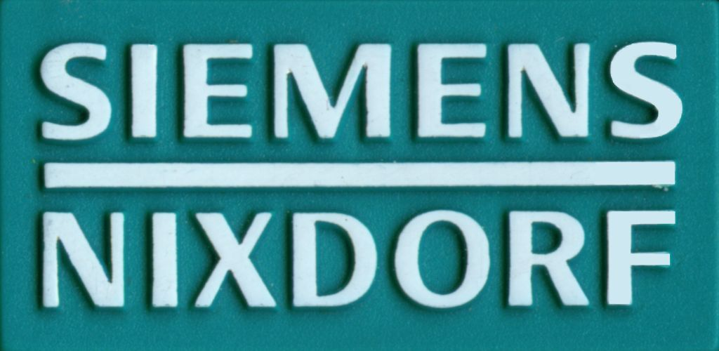 Logo of SNI Siemens-Nixdorf